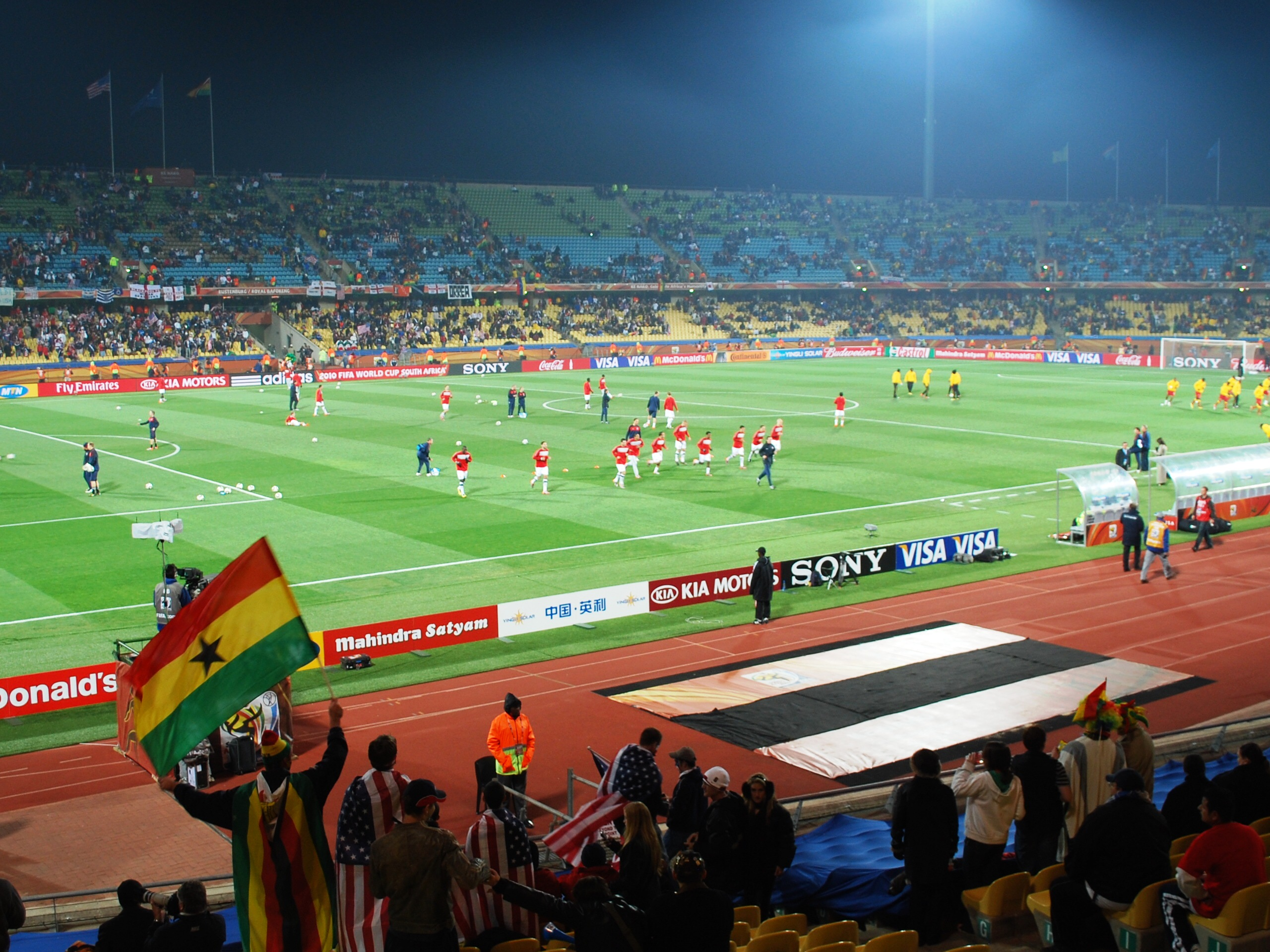 The United States plays Ghana in a FIFA 2010 World Cup soccer match on June 26, 2010, at the Royal Bafokeng stadium in Rustenburg, South Africa. [State Department photo/ Public Domain]